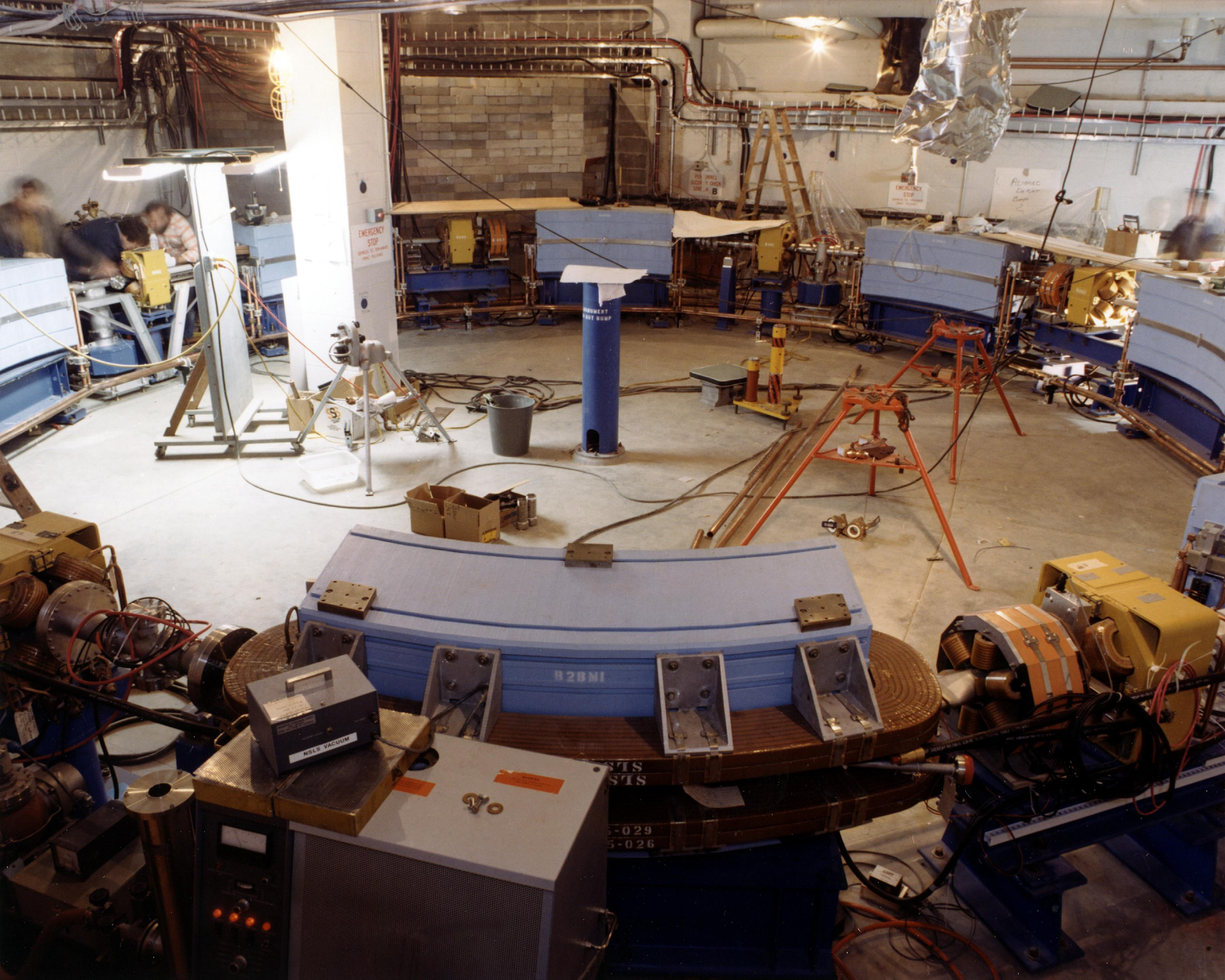 TECHNICIANS ARE ASSEMBLING THE VACUUM ULTRAVIOLET RING. THE NSLS WILL ACCELERATE AND STORE ELECTRONS AT A SPEED CLOSE TO THAT OF LIGHT TO PRODUCE AN ENTIRE SPECTRUM OF RADIATION, FROM INFRARED THROUGH X-RAYS, FOR UNIQUE APPLICATIONS IN MANY FIELDS OF SCIENCE. THE FACILITY WILL CONSIST OF TWO ELECTRON STORAGE RINGS. THE SMALLER RING WILL ACCELERATE ELECTRONS TO 700 MILLION ELECTRON VOLTS TO PRODUCE ULTRAVIOLET RADIATION, AND THE LARGER RING WILL ACCELERATE ELECTRONS TO 2500 MILLION ELECTRON VOLTS TO PRODUCE X-RAYS. THE ULTRAVIOLET LIGHT CAN BE USED TO STUDY: CHEMICAL REACTIONS AND STRUCTURES, THE PROPERTIES OF PURE METALS, ALLOYS, AND INSULATING MATERIALS, AND THE TRANSFER OF ENERGY IN BIOLOGICAL SYSTEMS. X-RAY LITHOGRAPHY MAY BE USED BY THE ELECTRICAL INDUSTRY IN THE PRODUCTION OF MICROSCOPIC PRINTED CIRCUITS FOR COMPUTERS AND MICROPROCESSORS. X-RAY MICROSCOPY COMPLEMENTS ELECTRON MICROSCOPY, PERMITTING OPERATIONS THAT WOULD BE IMPOSSIBLE WITH AN ELECTRON MICROSCOPE. For more information or additional images, please contact 202-586-5251.